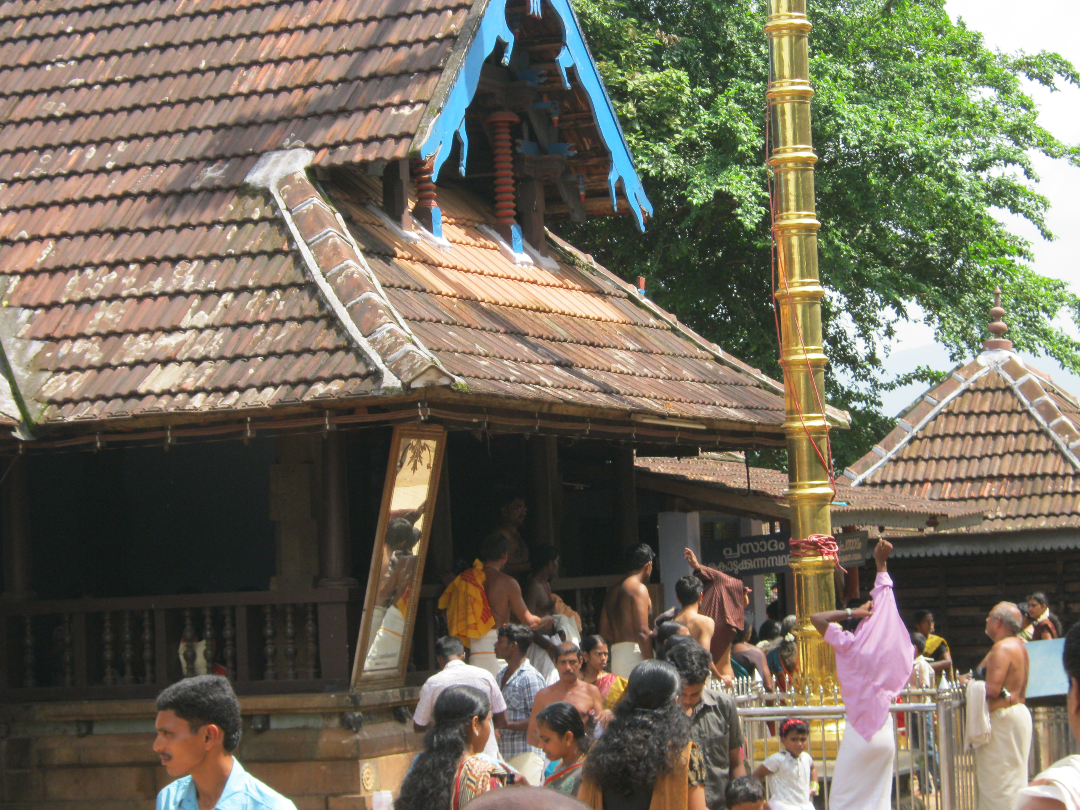 Thirumandhamkunnu Temple, Malappuram District in Kerala